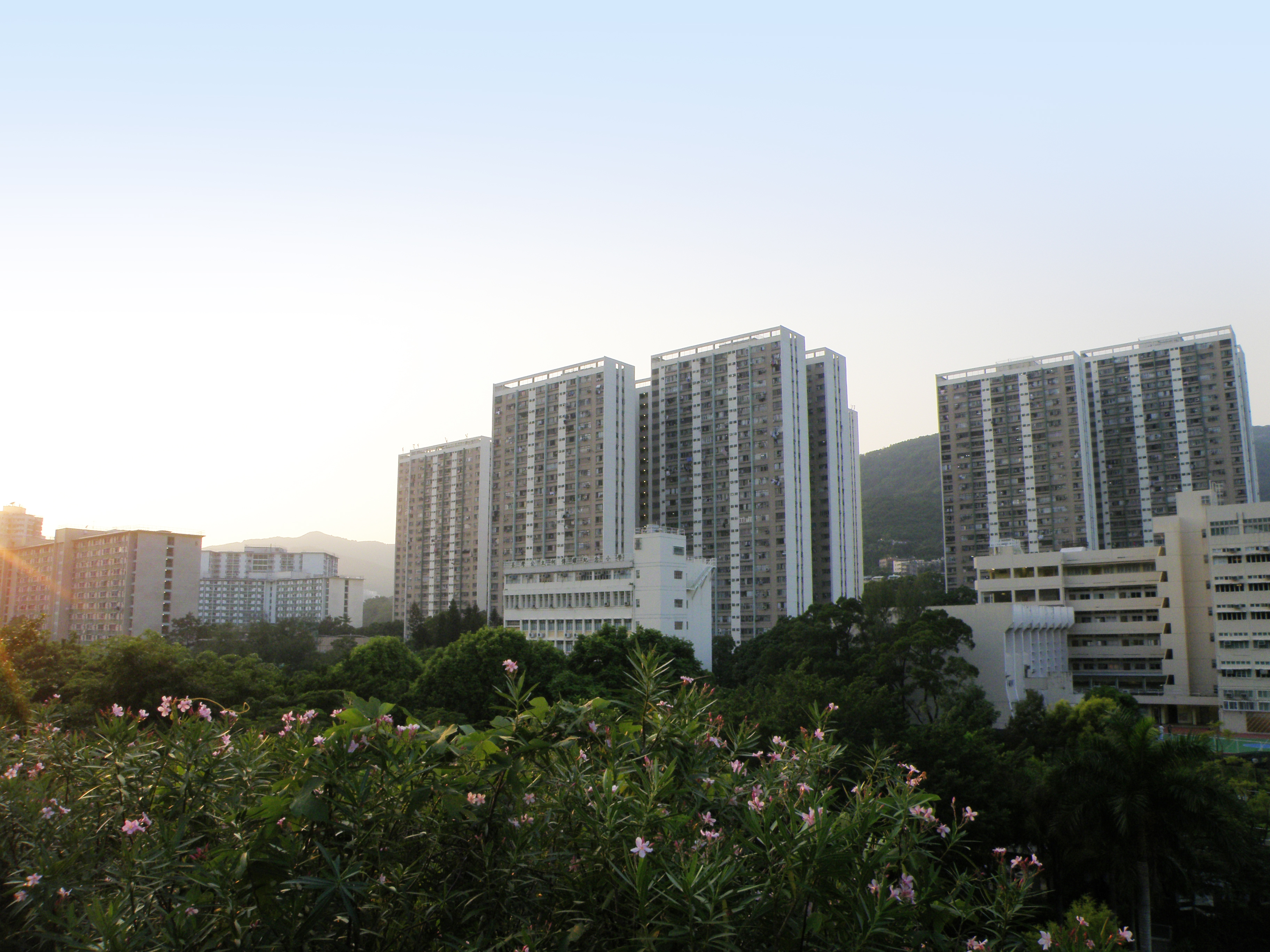 Shek Wai Kok Estate in Tsuen Wan, Hong Kong.